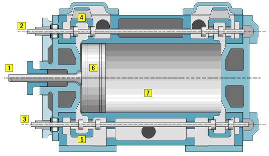 Porter-Allen engines were the first truly high-speed steam engines. They combined Allen's design of balanced slide valves and trip valvegear with Fink's stationary link to adjust cut-off under the control of Porter's high-speed governor. Like the Corliss, they were four-valve engines with two separate admission and exhaust valves, each operated and adjustable independently.